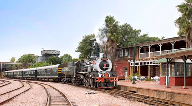 Provided by Rovos Rail for public use